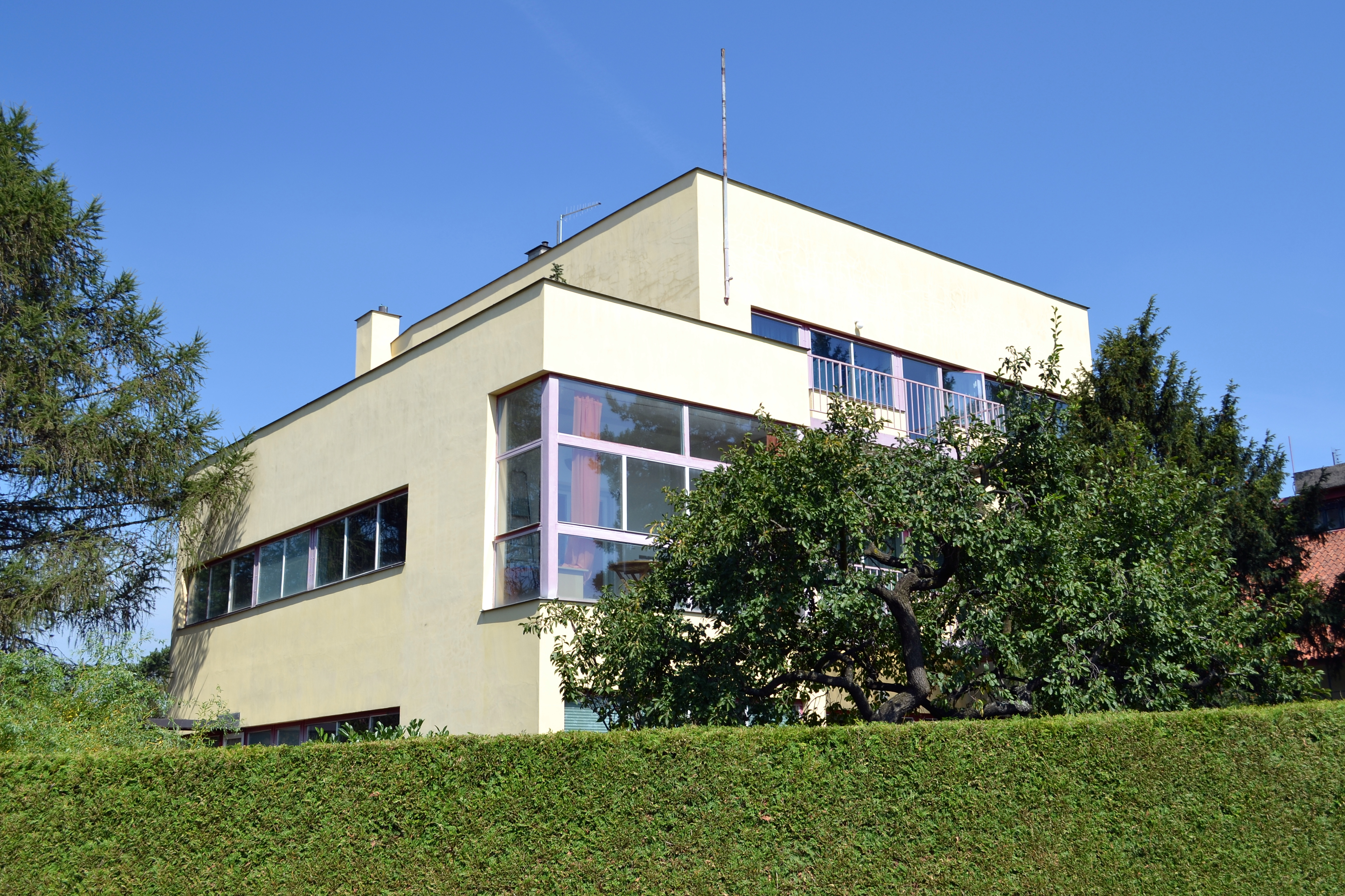 Cultural monument "Mölzerova vila" No. 25/14, Na Kodymce street, Dejvice, Prague 6, Czech Republic. View from Na Špitálce street.